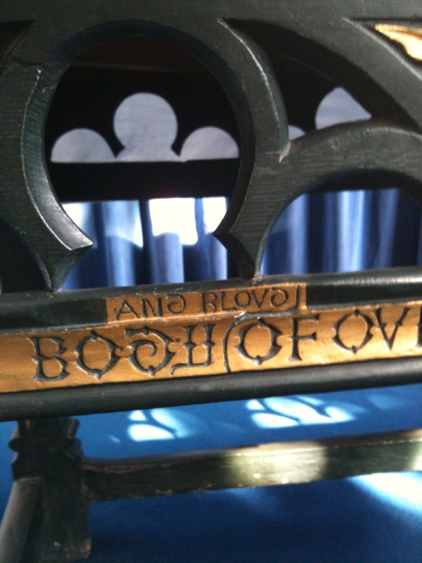 A detail of the 1539 altar, St Nicholas Church, North Walsham